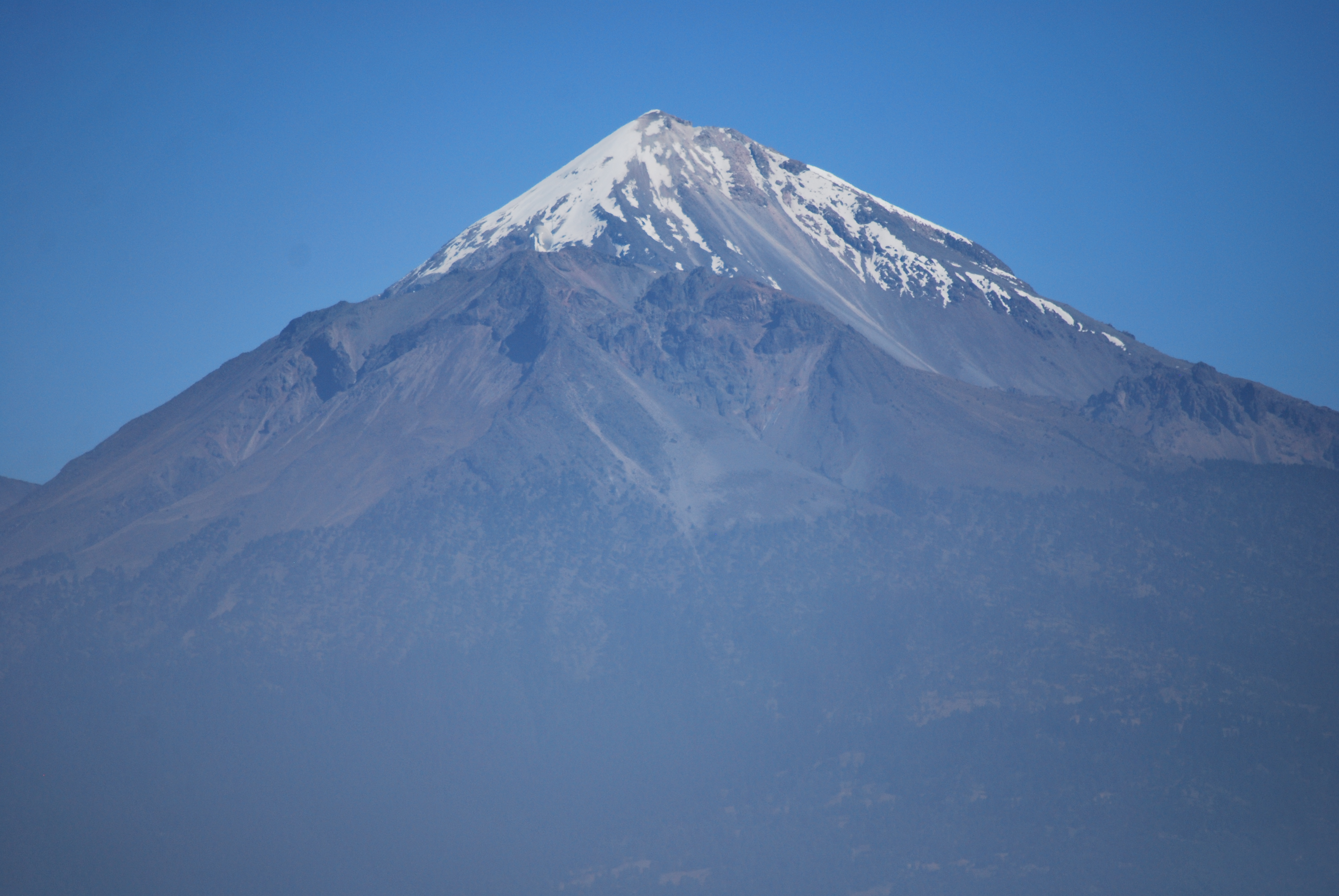 View of the Pico de Orizaba from highway 150D in Mexico